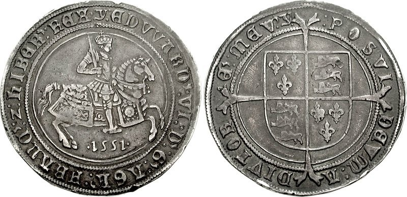 Tudor. TUDOR. Edward VI. 1547-1553. AR Crown (41mm, 30.78 g, 9h). Third period; fine silver issue. Tower mint; mm: y. Dated 1551. ЄDVVΛRD’: VI : D’: G’: ΛGL’: FRΛnC’: Z : hIBЄR’: RЄX •, Edward, in full armor and holding sword in right hand, on horseback right; •1551• below : POSVI DЄVm : Λ DIVTOR Є’ : mЄV.’, royal shield over long cross fourchée. Lingford dies A/8; North 1933; SCBC 2478. VF, toned. An extremely well struck specimen with an even amount of wear on the highest points. By the middle of 1551 the silver coinage of Edward VI was at its intrinsic worst. Beginning with the last issues of Henry VIII, the silver coinage had become steadily more debased to stretch the ever-dwindling silver resources available to the crown. The poor quality coinage of Edward’s early reign was reflective of the troubled political situation. The son of Henry VIII by his third wife, Jane Seymour, Edward was a sickly youth who ascended the throne while still in his minority. Consequently, he was subject to a regency under his uncle, Edward Seymour, 1st Duke of Somerset as Lord Protector. A devout Protestant, Seymour and his allies worked to continue the Reformation in England begun under Henry VIII. Numerous problems, however, caused Seymour’s unpopularity to increase dramatically. He was eventually replaced by the Duke of Northumberland, and executed soon after. Northumberland believed that to combat England’s problems at home and abroad, the king had to declare his majority as soon as he turned 16. Moreover, the poor quality coinage had to be replaced with that of a higher quality silver. For the next three years, issues such as this crown were struck in an attempt to bolster the young king’s government. However, Edward died in 1553 and such fine quality coinage came to an end to under his sister and successor, Mary.